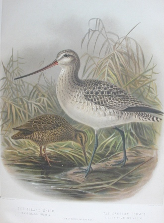 Coenocorypha pusilla, left, and Limosa lapponica, right, from Walter Lawry Buller's A History of the Birds of New Zealand (1888). [1].